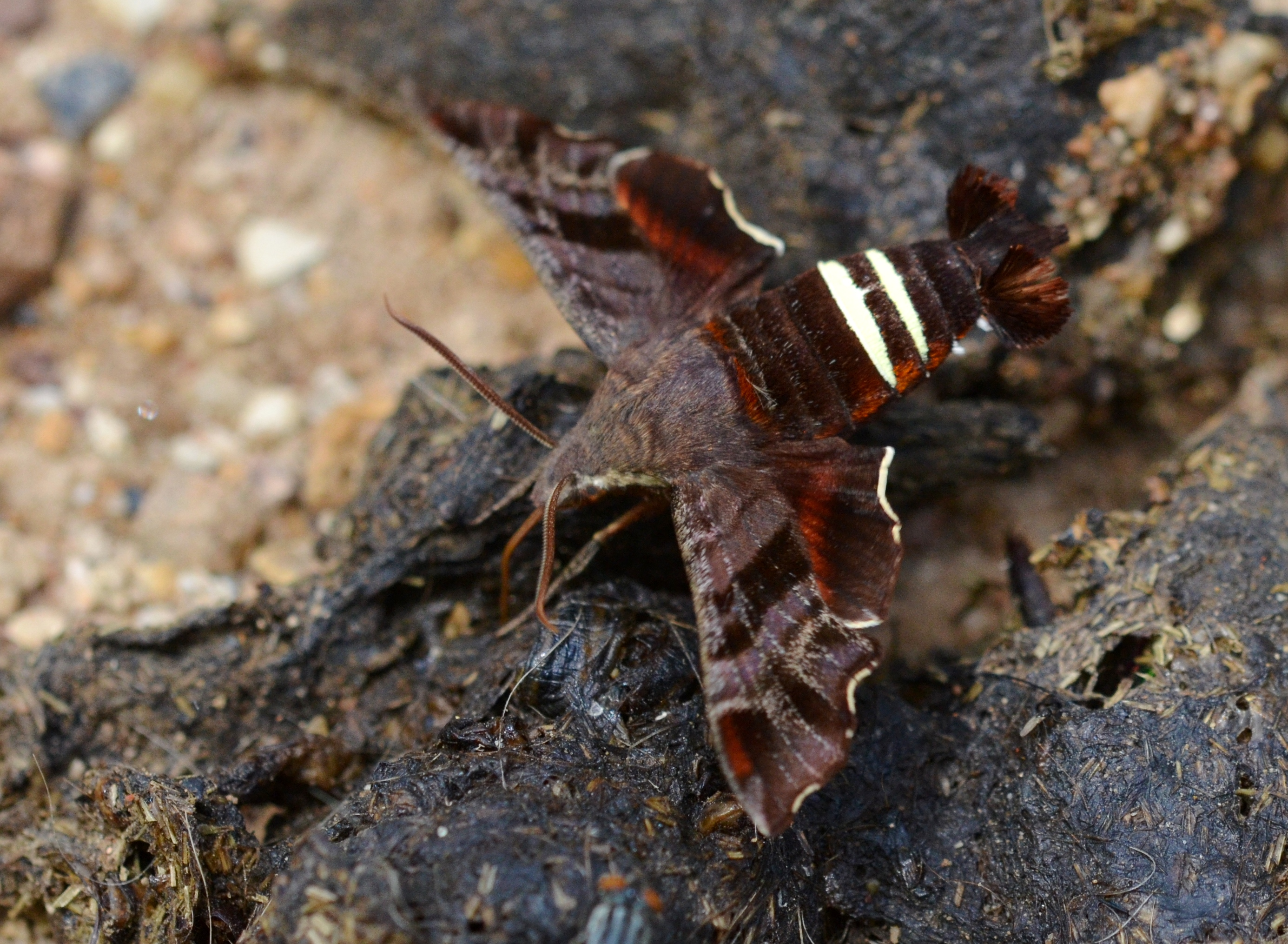 Mark Twain National Forest 6/1/14